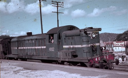 Blue 4002 passes through Hawkesbury River station